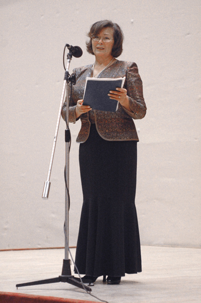 Császár Angela Hungarian actress in 2006